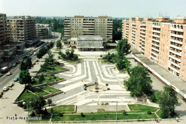 Magnolia Square - Oradea